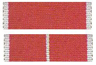 Ribbon of the Order of the British Empire with the Civil Division (upper) and the Military Division (lower) - 198x133px